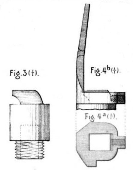 hooked breech plug